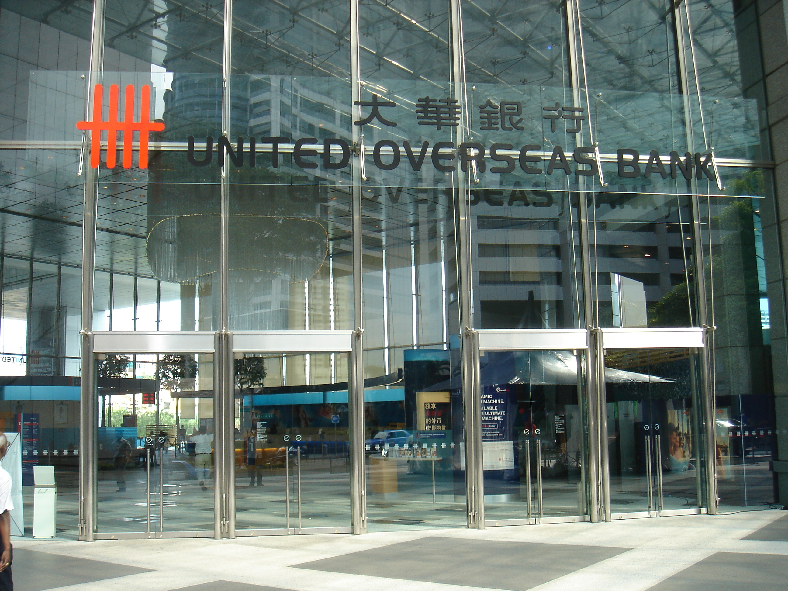 United Overseas Bank, UOB Plaza branch.